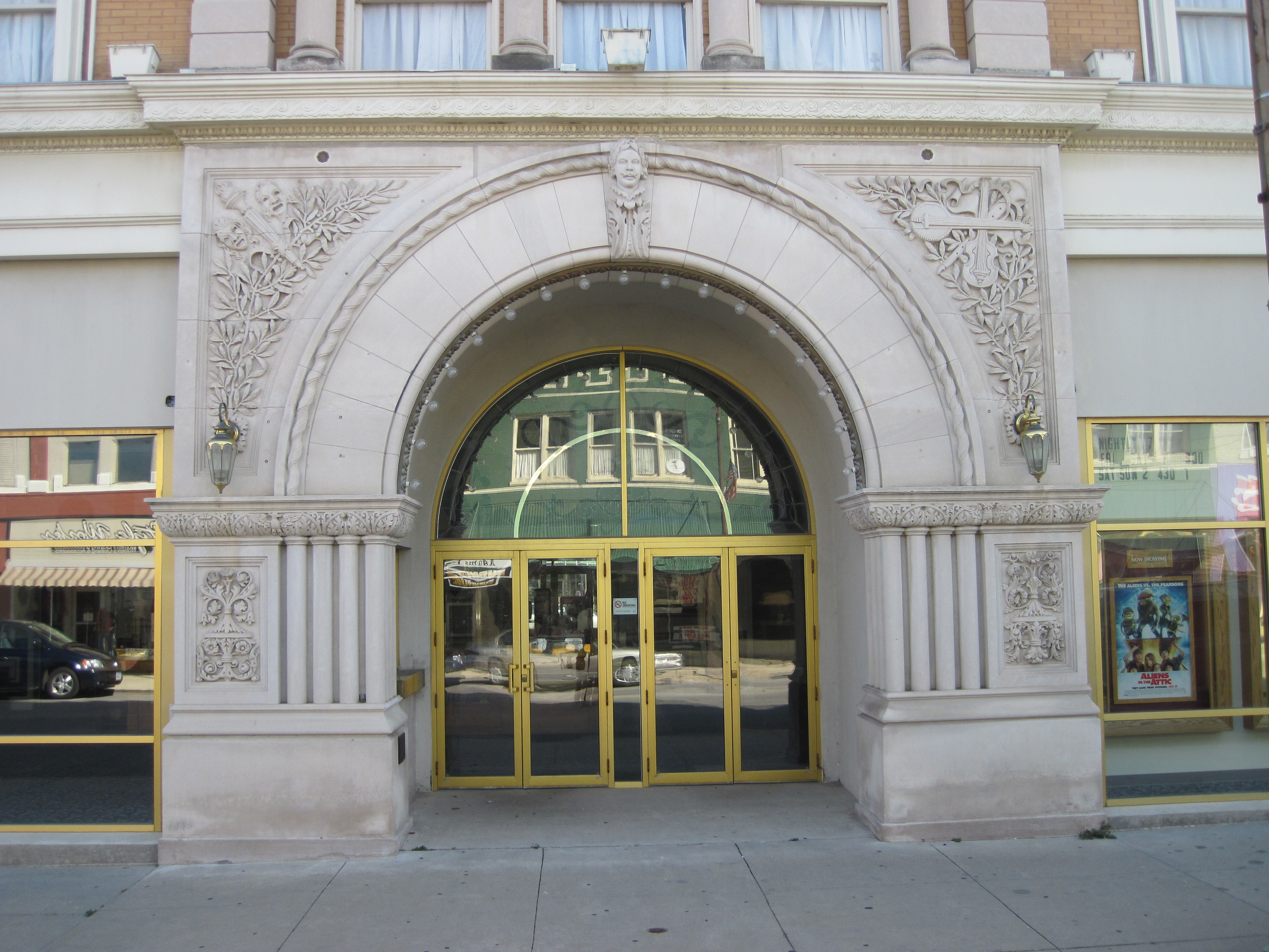 Entrance to the Met Opera house, Iowa Falls. Bill Whittaker (talk) 16:01, 1 October 2009 (UTC)